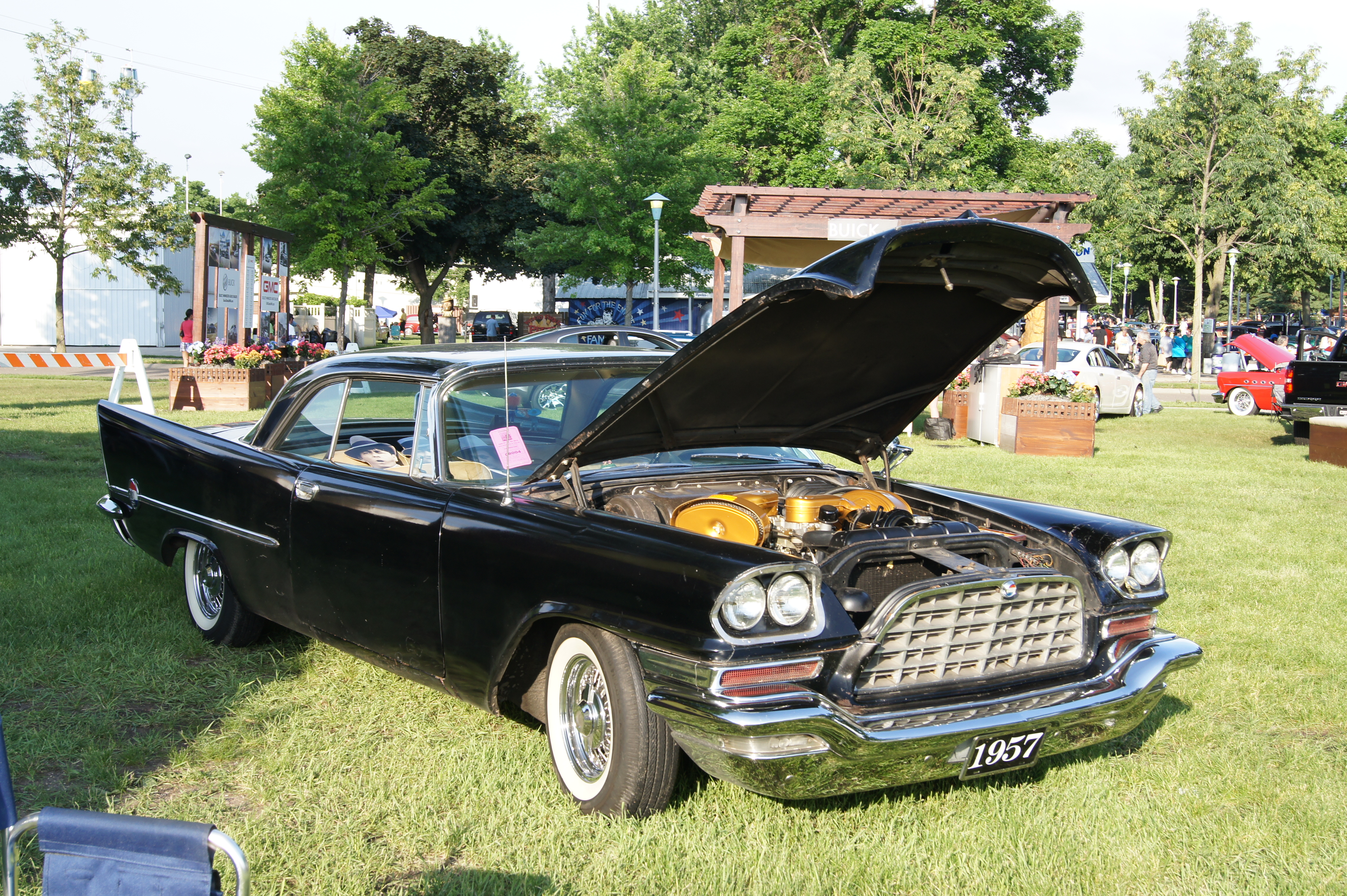 MSRA “BACK TO THE 50′s” 40th ANNIVERSARY June 21-23, 2013 State Fairgrounds St. Paul Minnesota More Car Pictures